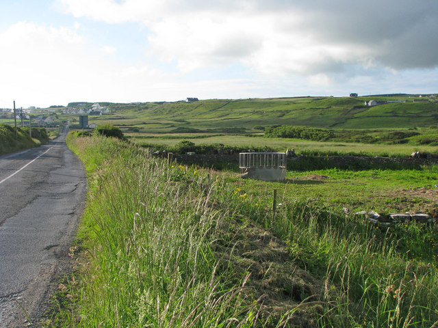 Field and crib along the R479 road